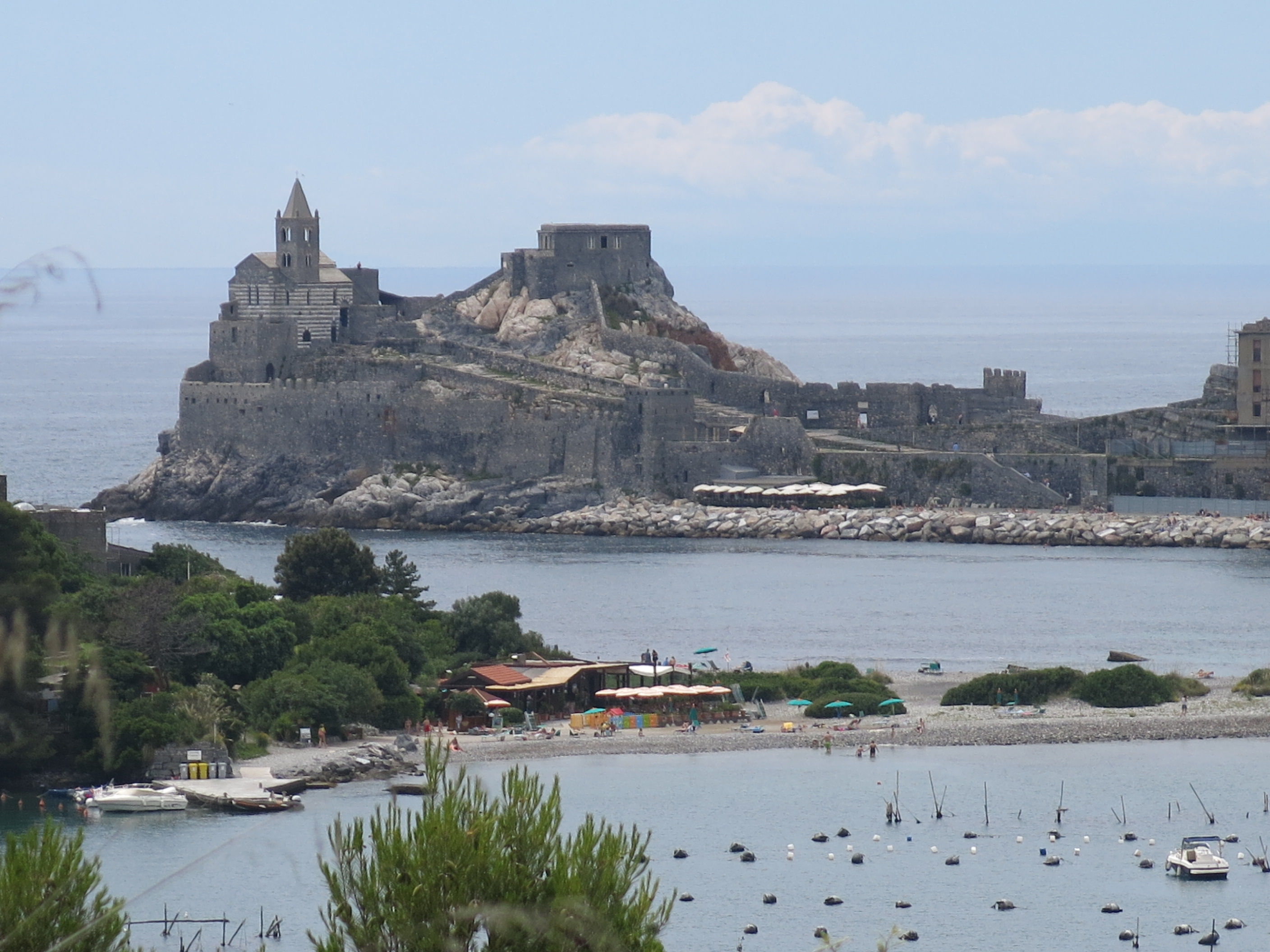 Beach of Palmaria island and Porto Venere in the background (Liguria, Italy).